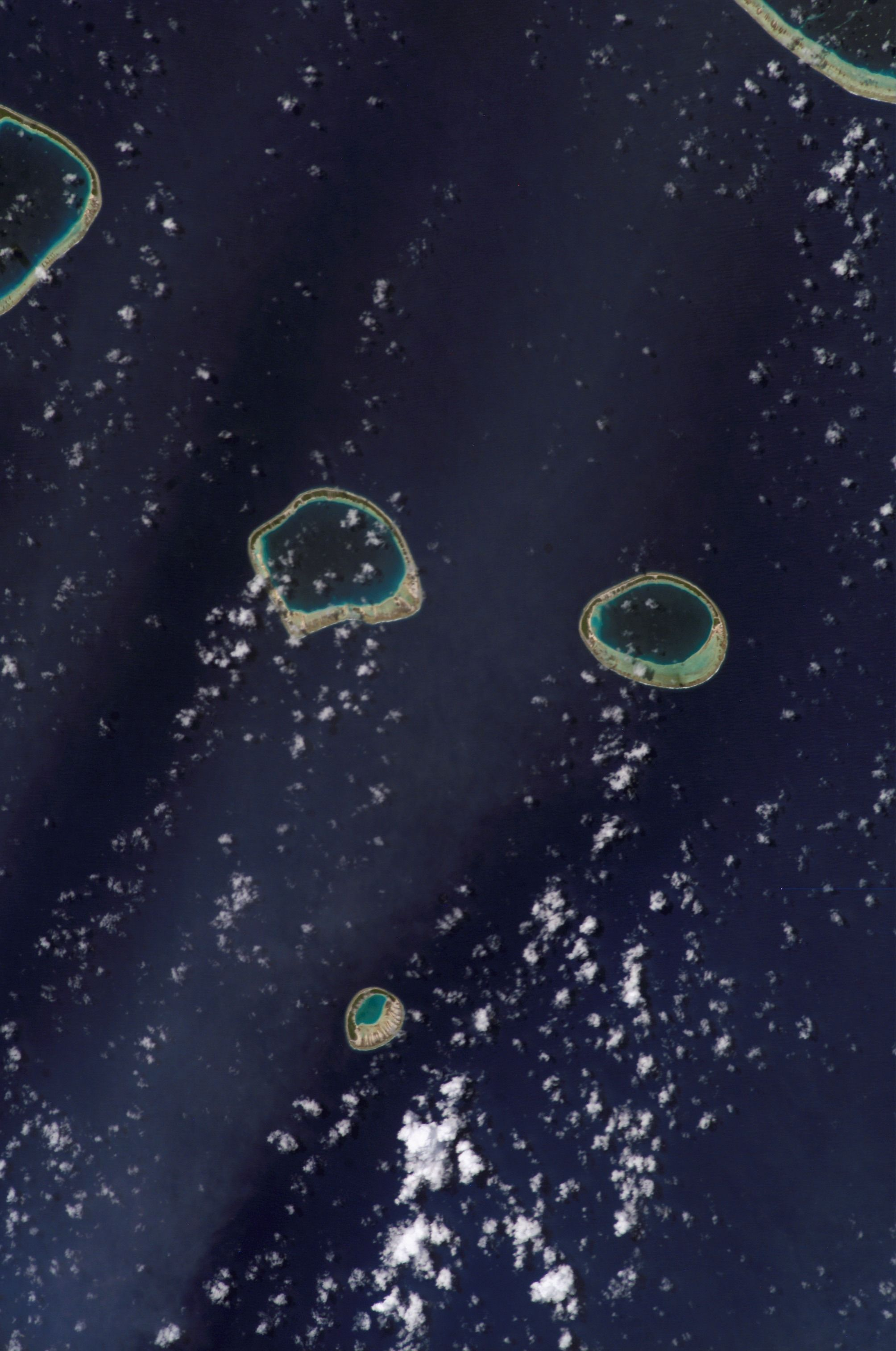 Raevski Islands (Tuamotu Archipelago, French Polynesia), from space.